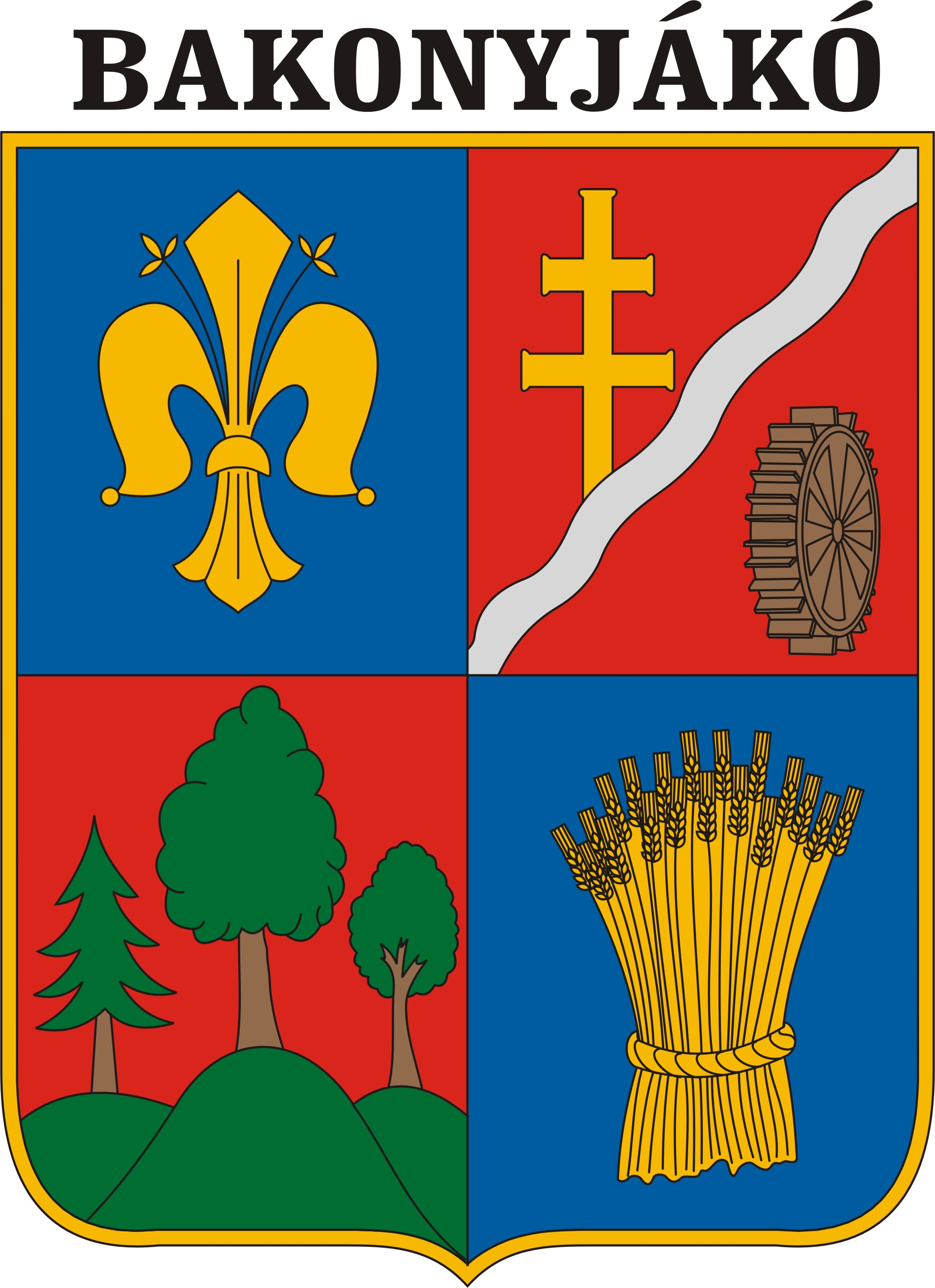 Coat of arms of Bakonyjákó, Hungary